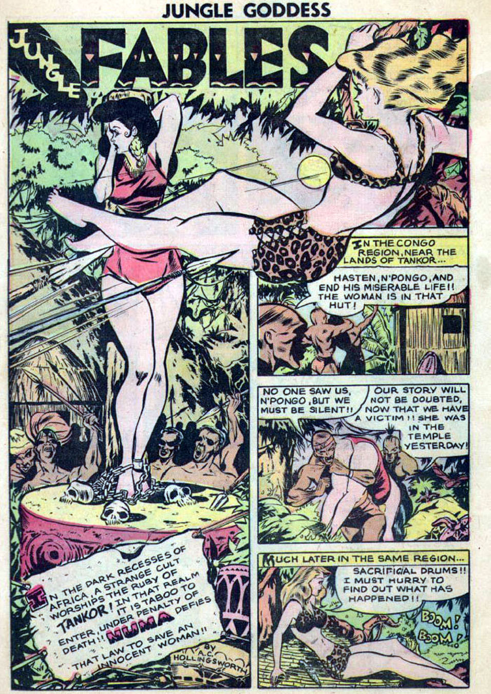 Rulah #18, Page 13 September 1948